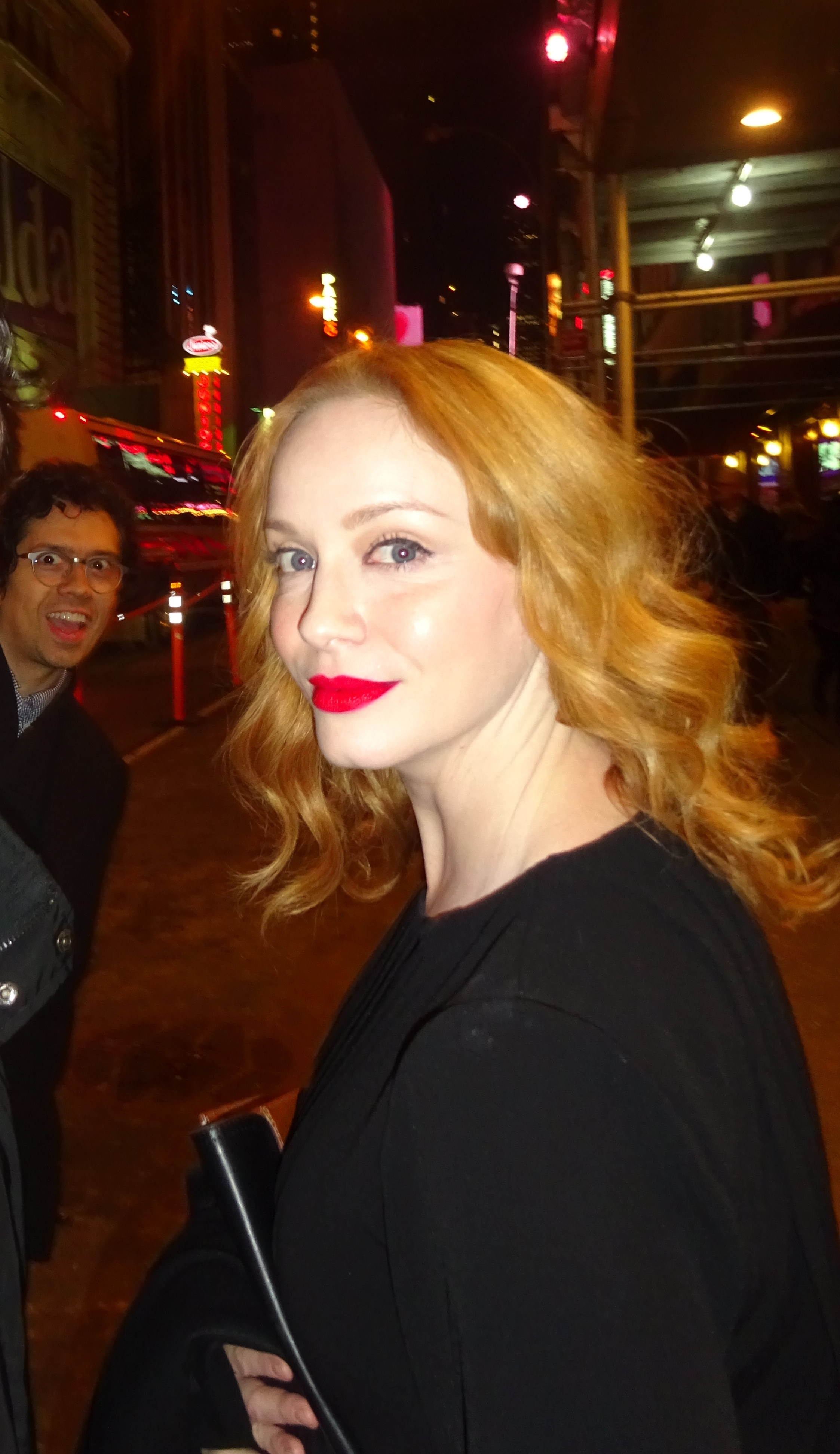 Star of Mad Men, with husband Geoffrey Arend photobombing! NYC Nov '16.